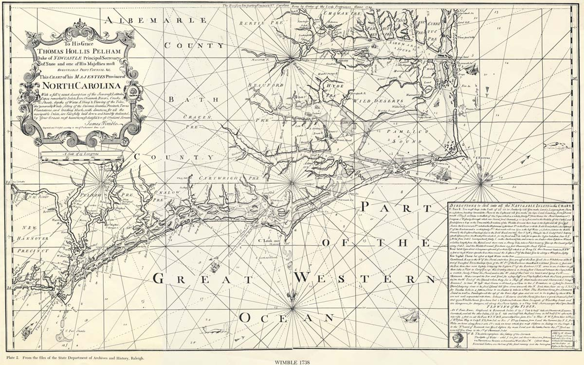 "Chart of his majestie's province of North Carolina with a full description of the coast, 1738." Courtesy of the North Carolina State Department of Archives and History, Raleigh, North Carolina.